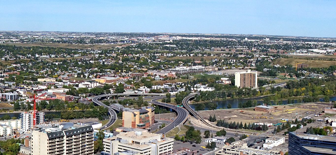 View from Calgary Tower towards the north east